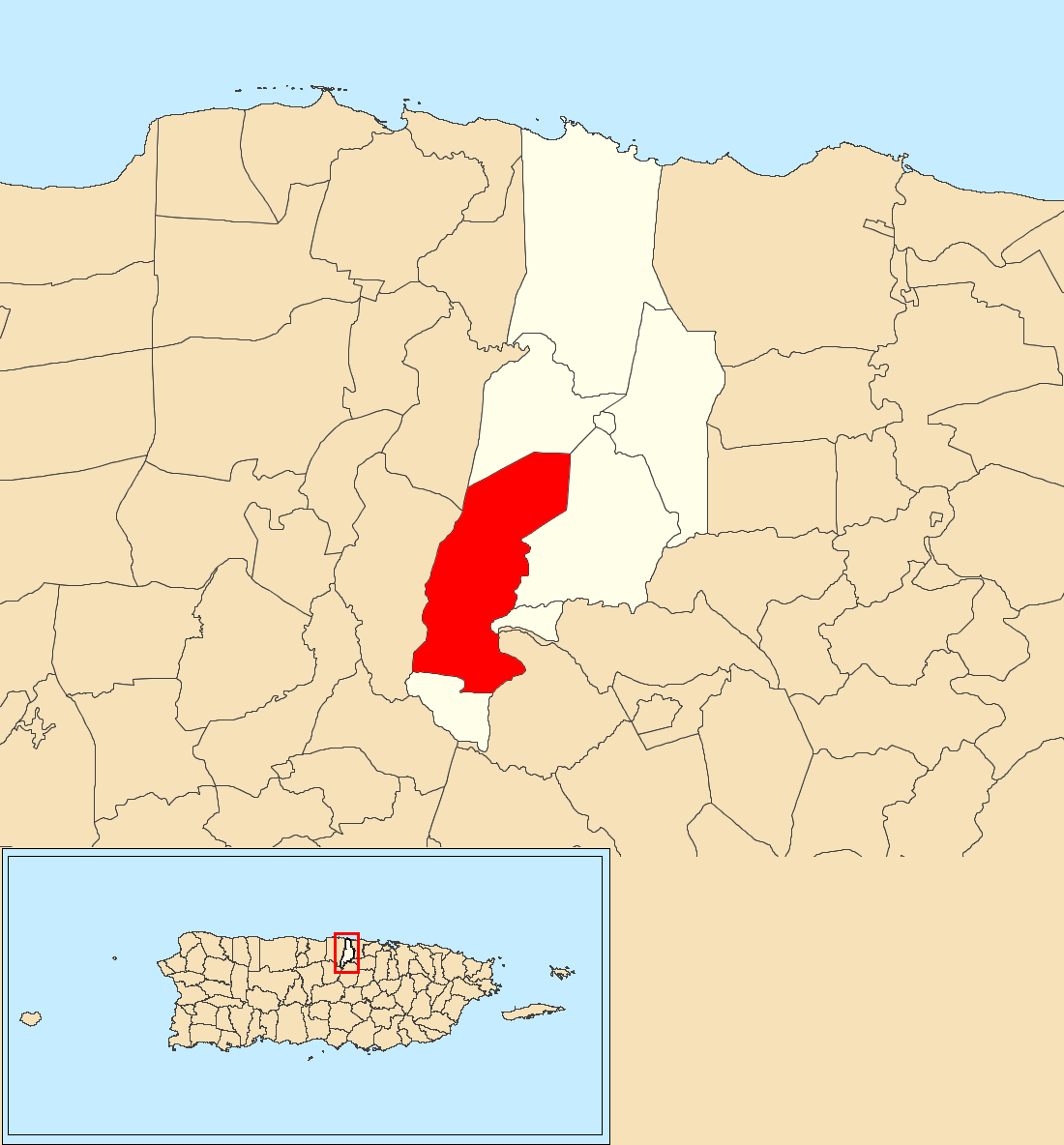 Candelaria, Vega Alta, Puerto Rico locator map